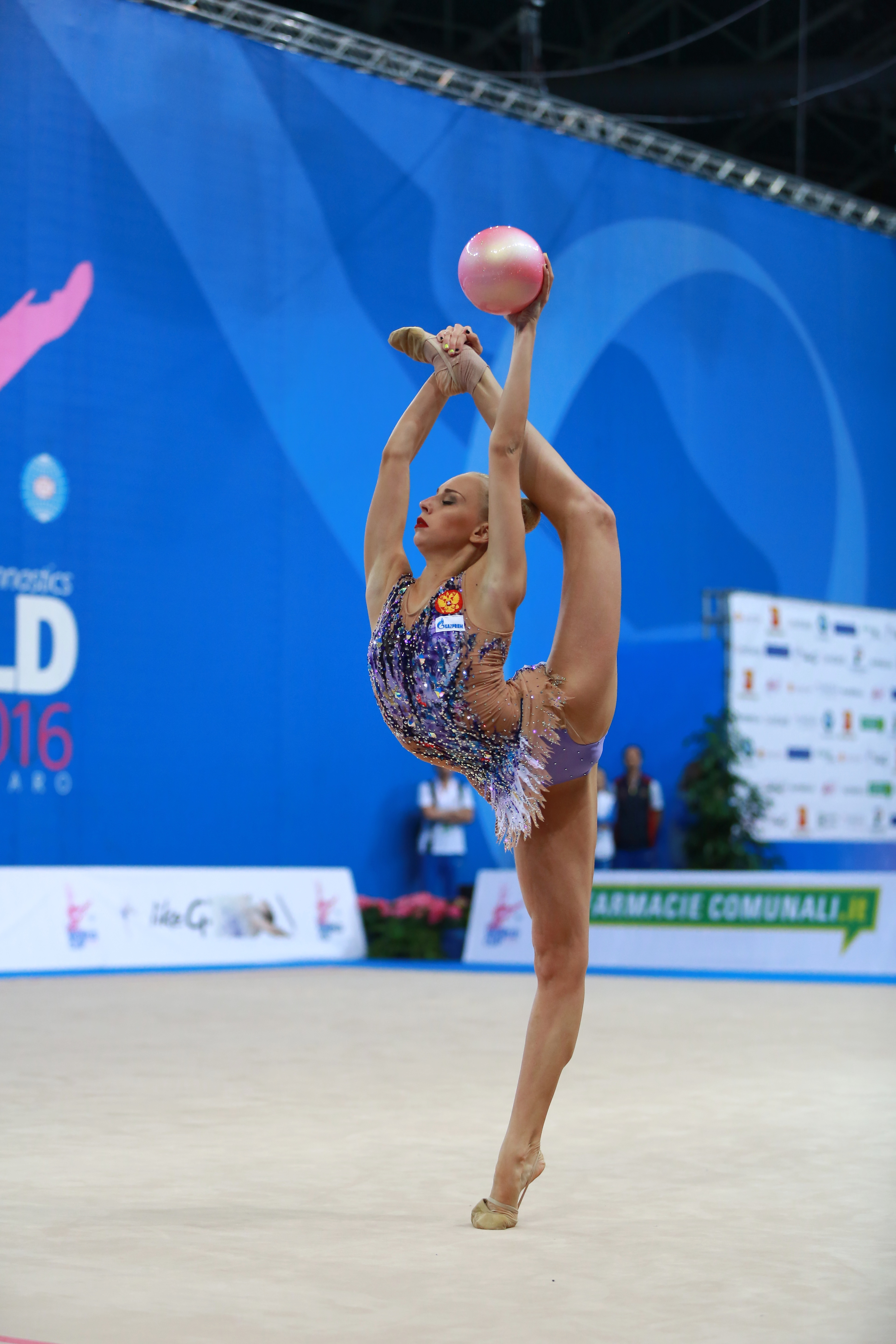 Russian rhythmic gymnast Yana Kudryavtseva, multiple World Champion and Olympic silver medalist